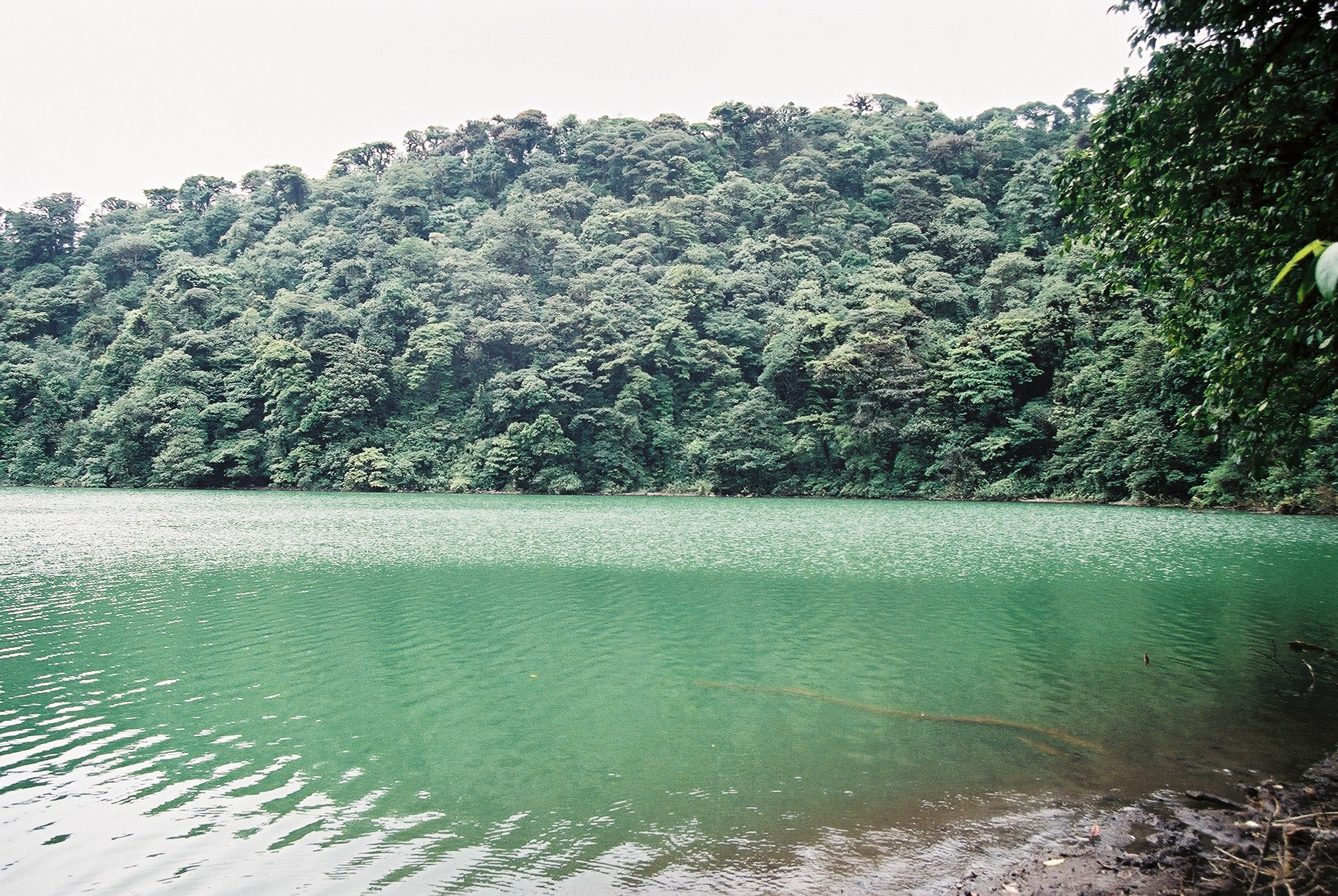 The crater lake, Laguna Cerro Chato, of Cerro Chato volcano — in Costa Rica.